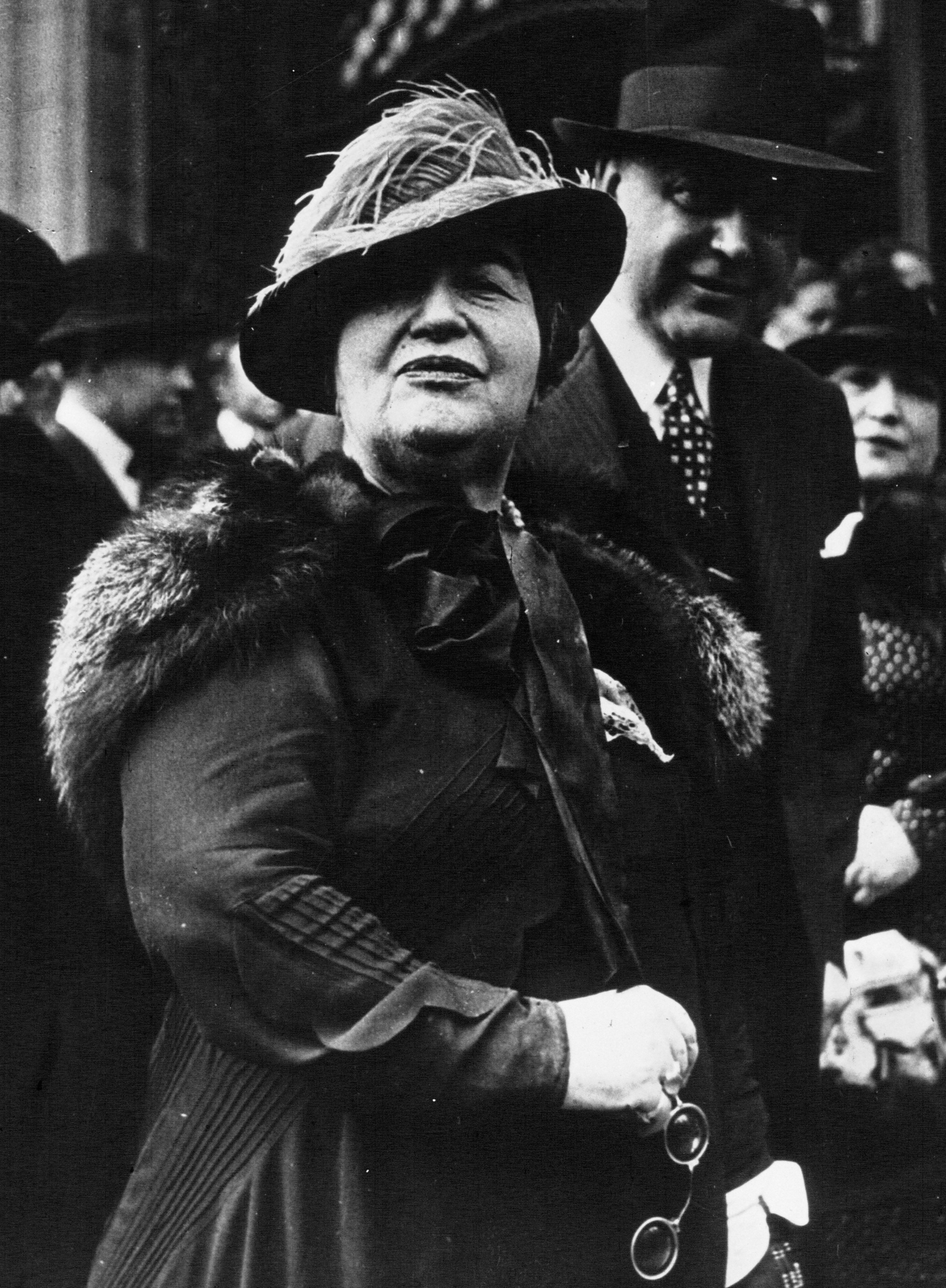 Elena Văcărescu (Hélène Vacaresco, 1864-1947) as delegate to the League of Nations in 1936.